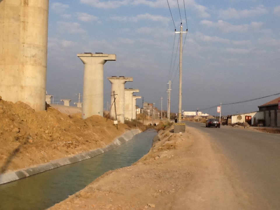 201402Jinwen-Hukun Connector under construction